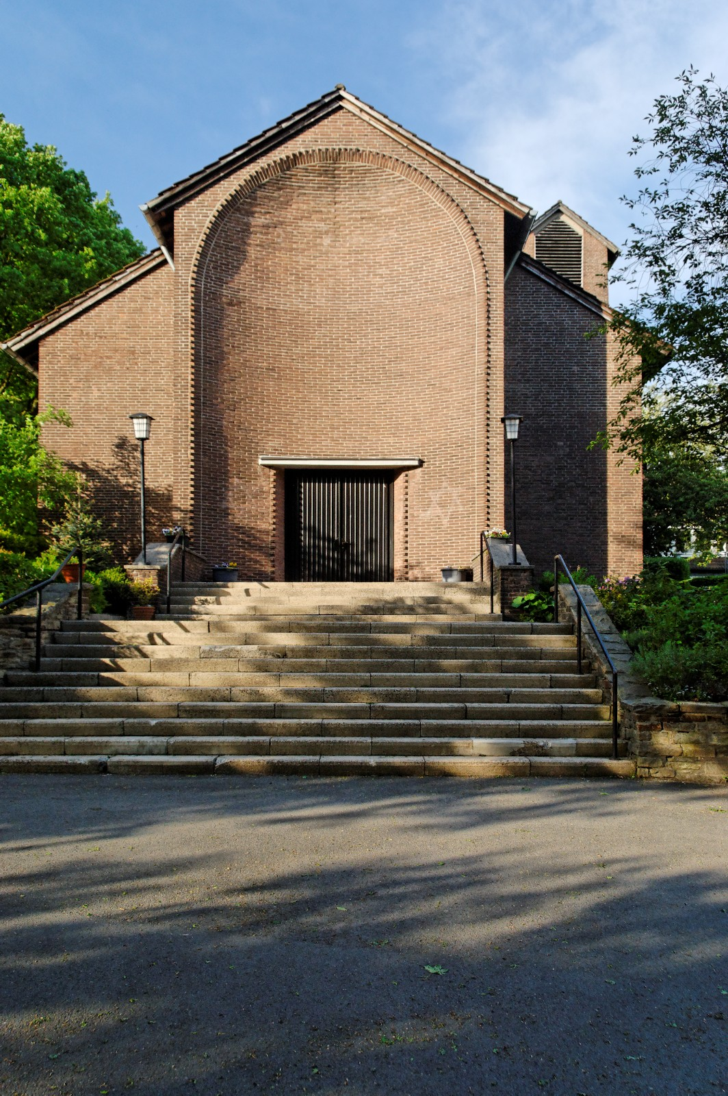 Paul Gerhardt Church in Düsseldorf-Unterbach, Germany